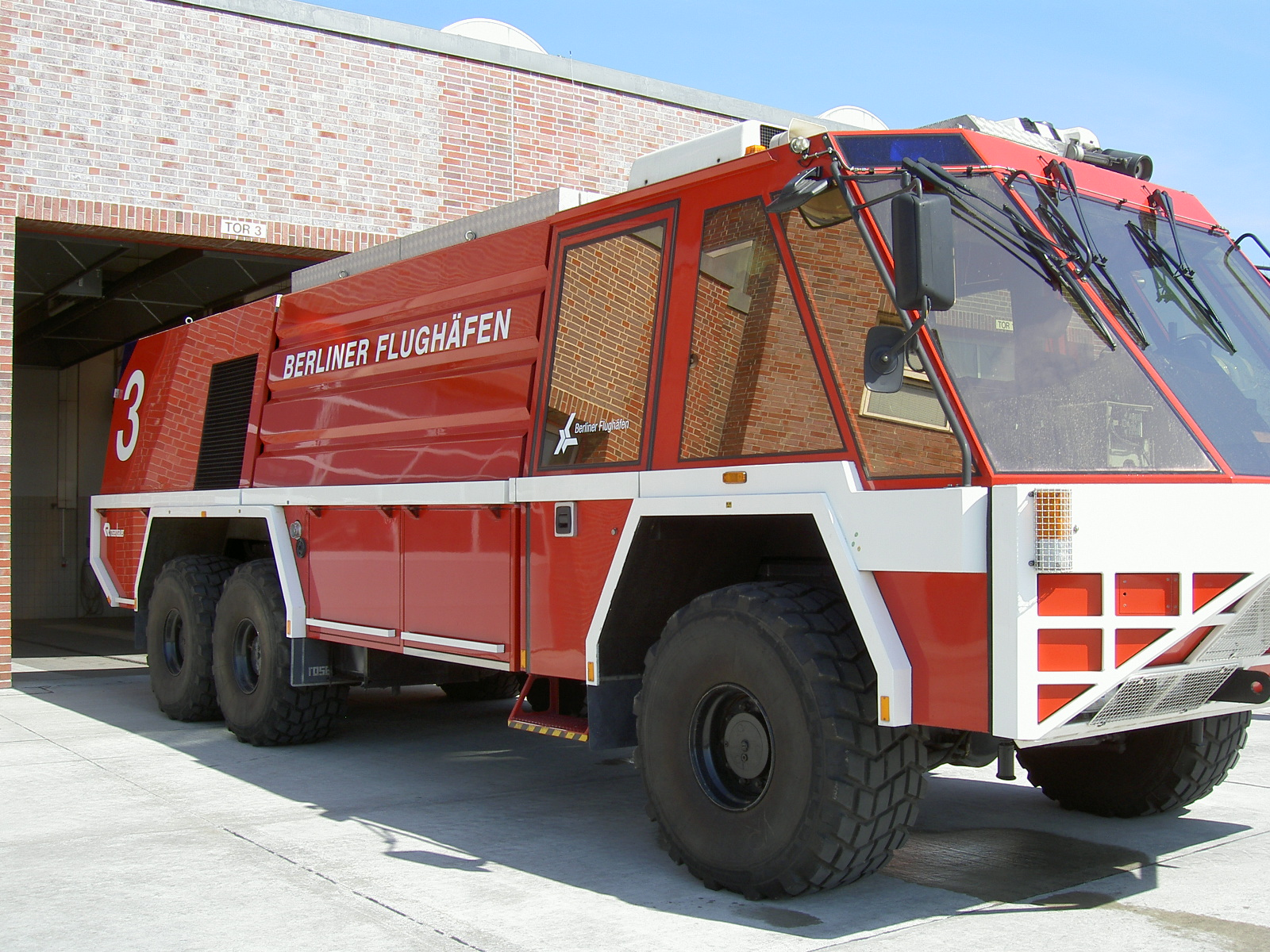 GFLF Simba 6 x 6